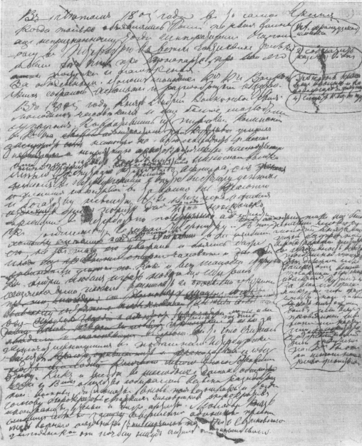 Ninth draft of the beginning of Tolstoy's novel War and Peace